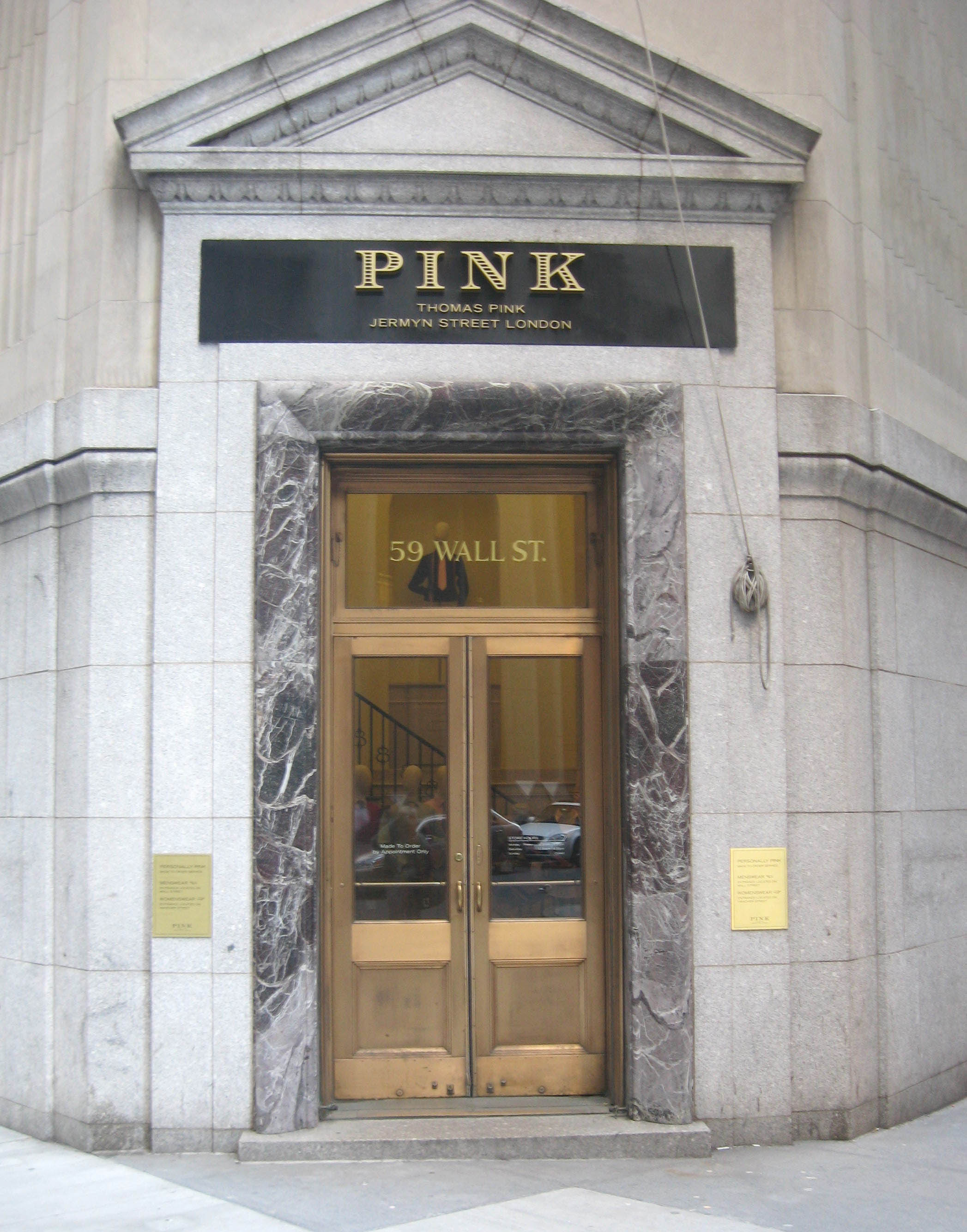 Looking south at Wall Street shop of Thomas Pink shirt company on a cloudy afternoon